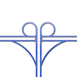 Half-Clover Road Interchange